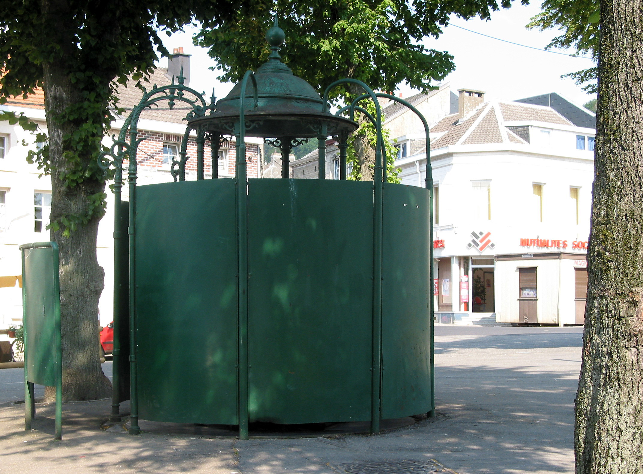 Limbourg (Belgium), place Léon d’Andrimont – Street urinal.